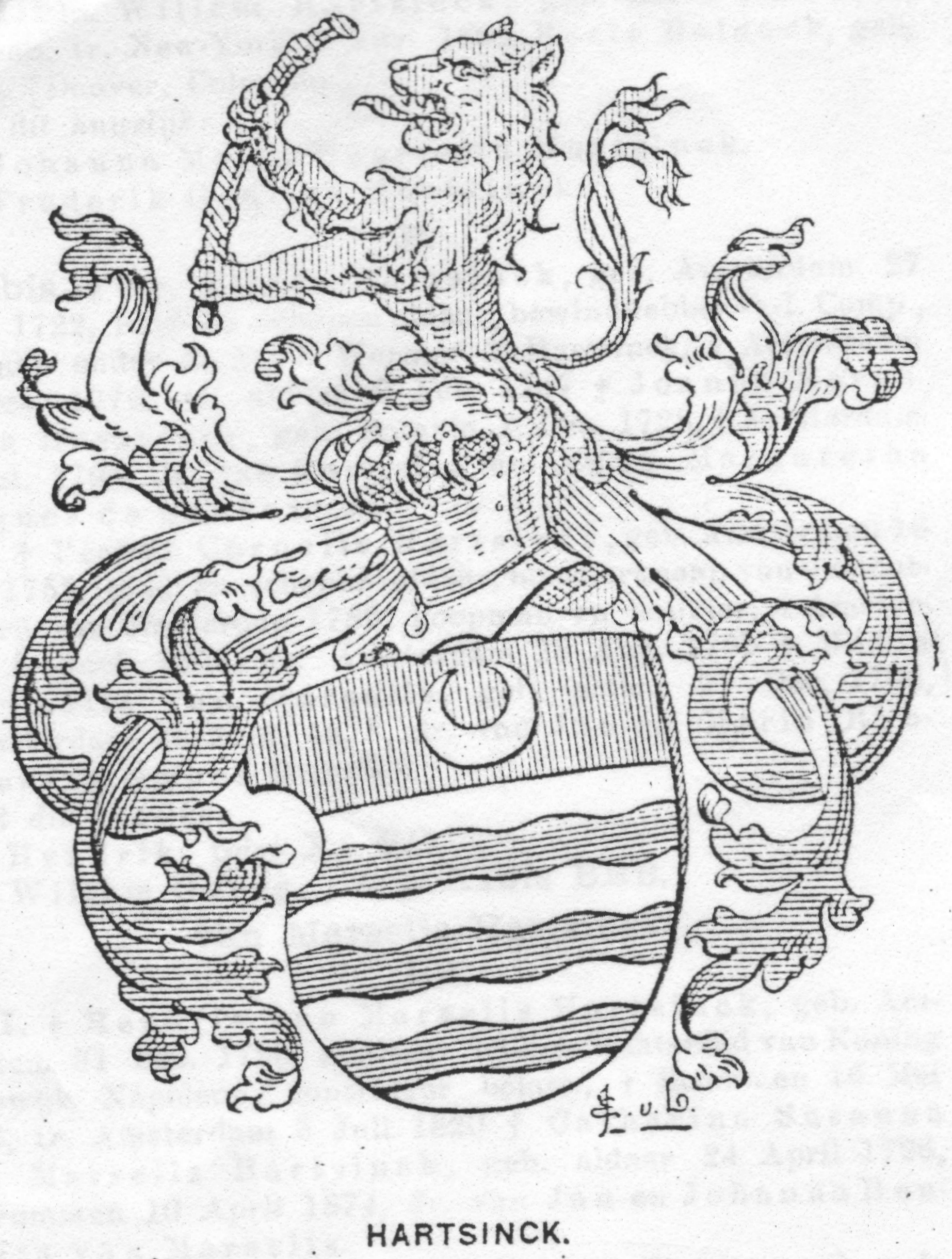 Coat of Arms Hartsinck